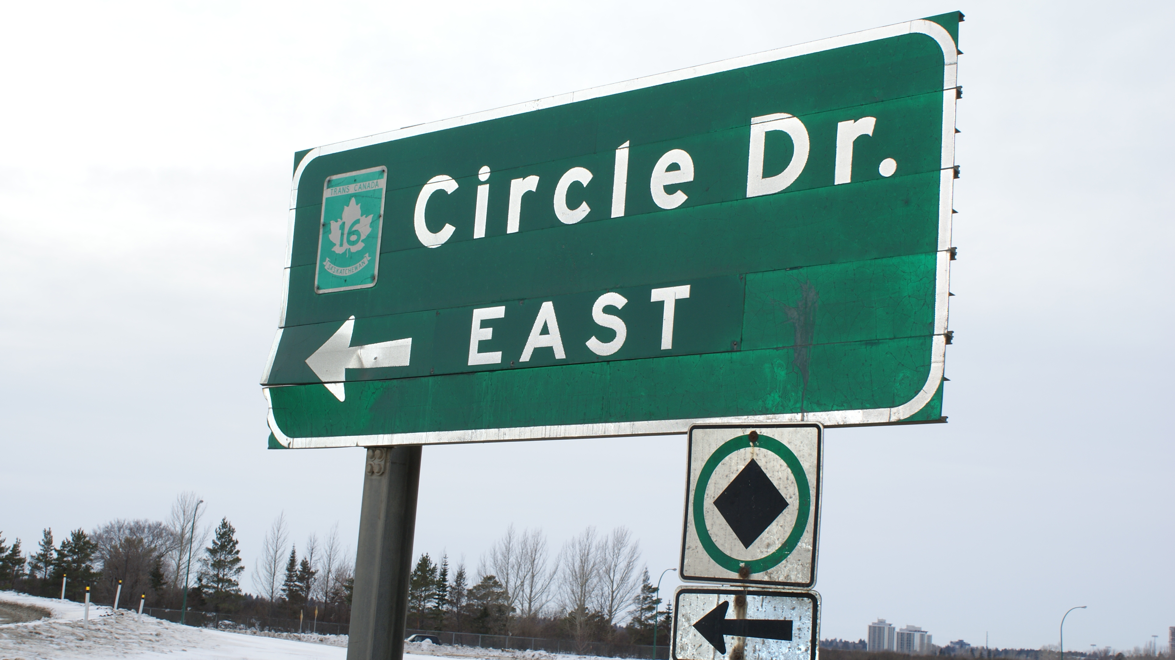 Circle Drive Saskatchewan Highway 16 the Trans Canada Yellowhead Highway Intersection of College Drive SkHwy 5) and Circle Drive (Sk Hwy 16) in Saskatoon